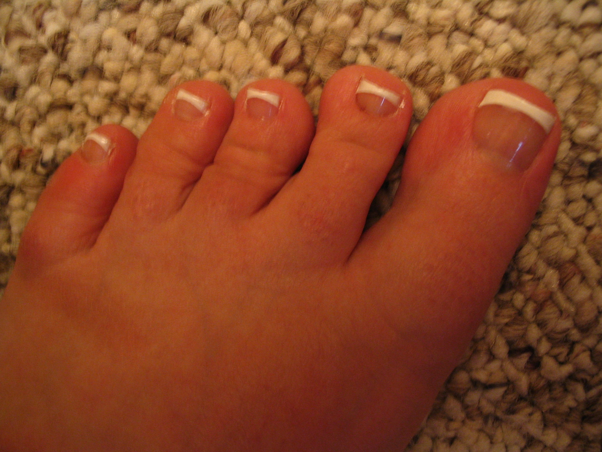 French pedicure